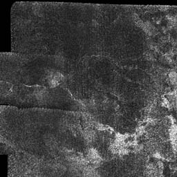 Ganesa Macula, a dark spot on Titan. Radar image by Cassini (look full image)